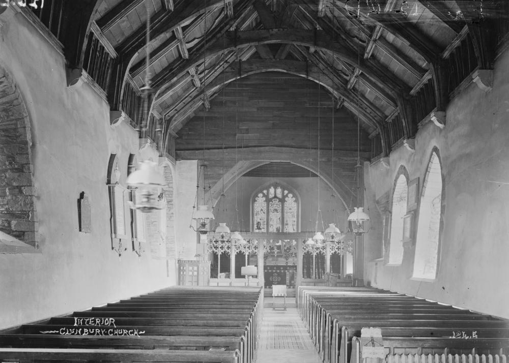 Abstract: Interior Clunbury church